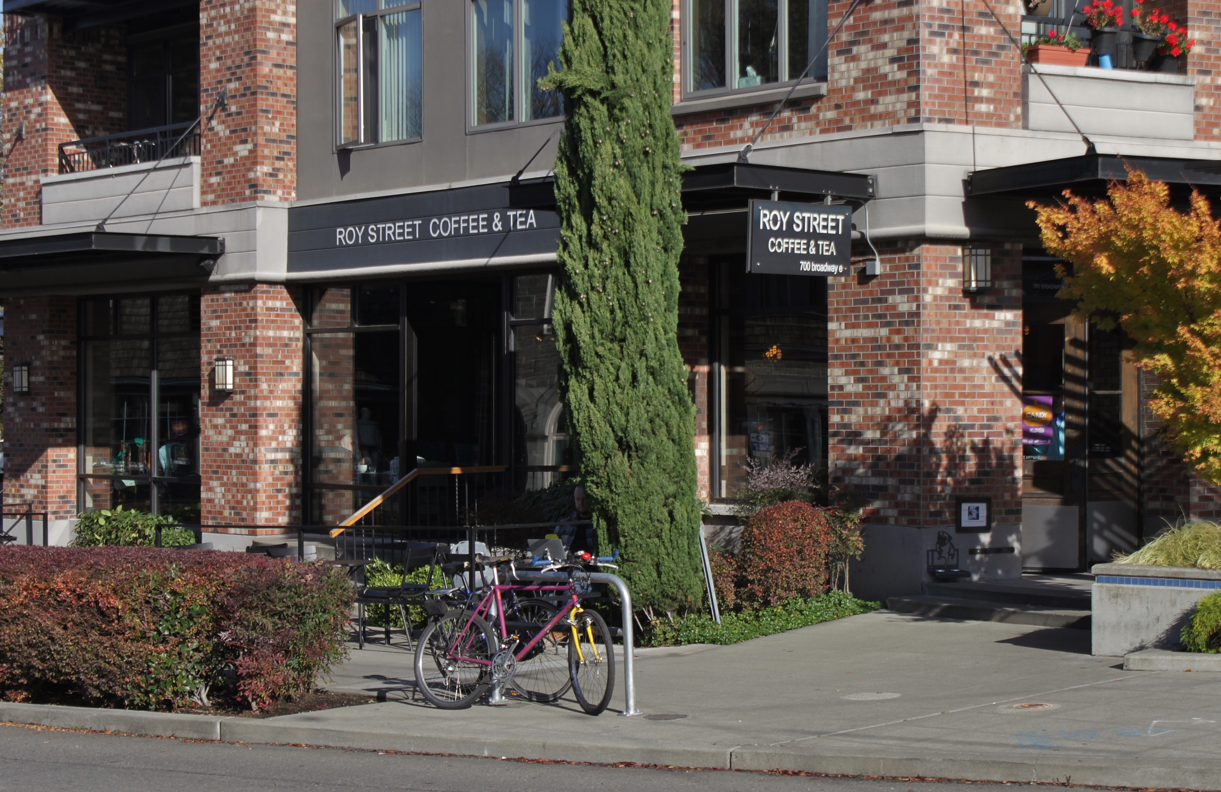 Roy Street Coffee & Tea at 700 Broadway E in Seattle's Capitol Hill neighborhood. An example of a Stealth Starbucks, or a Starbucks location without corporate branding.